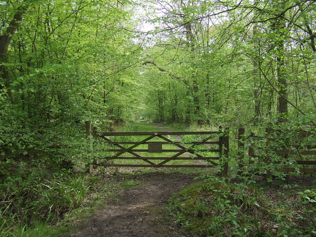 Gate into Hoddesdon Park Wood. The gate is just to the east of the Roman Road Ermine Street. The opposite direction is a similar path that runs about 2 miles through to Broxbourne Wood 77912